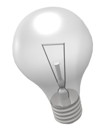 Schematic drawing of a light bulb.